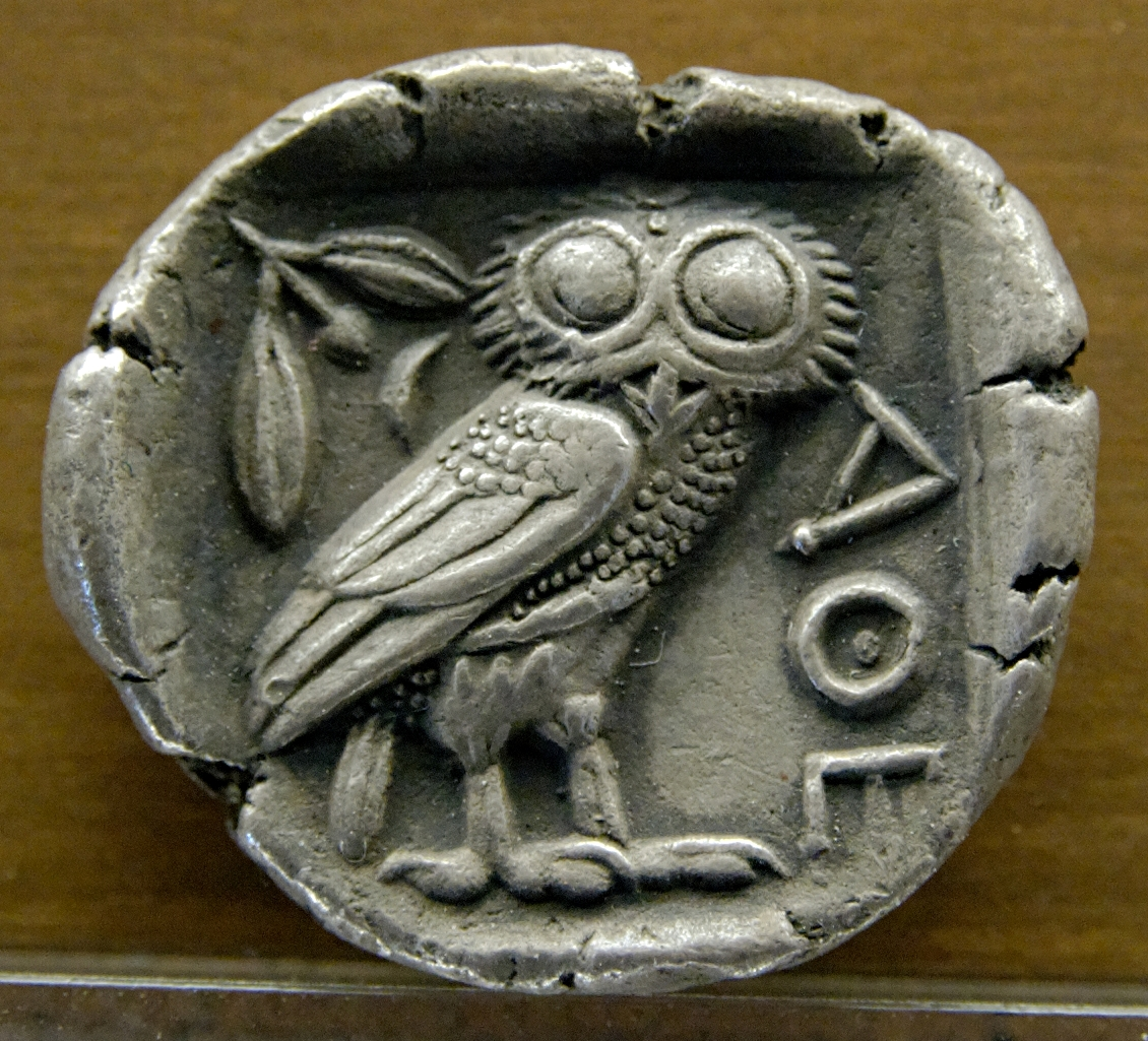 Owl standing right, head facing. Reverse of a silver tetradrachm from Athens, ca. 480–420 BC.